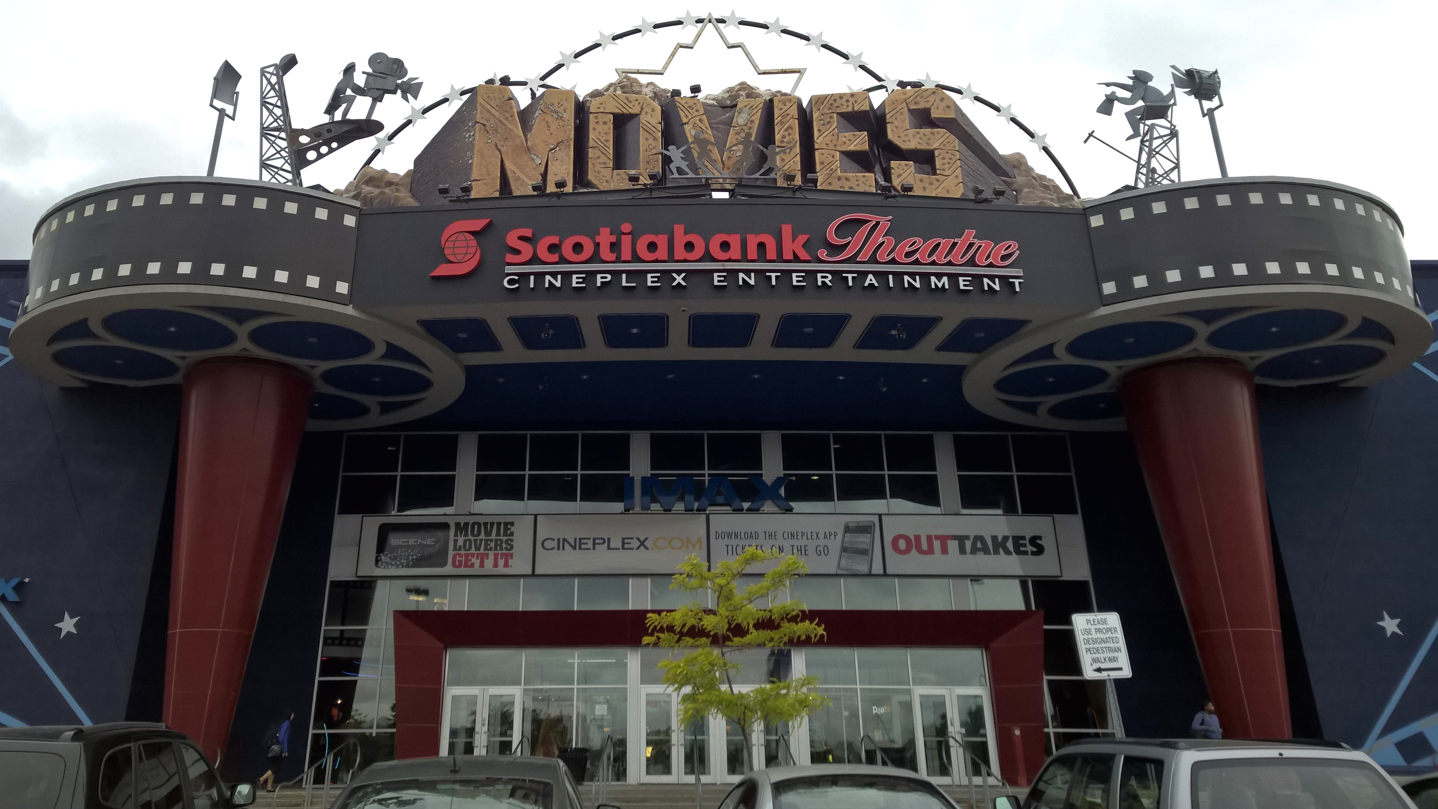 The Scotiabank Theatre Ottawa entrance.